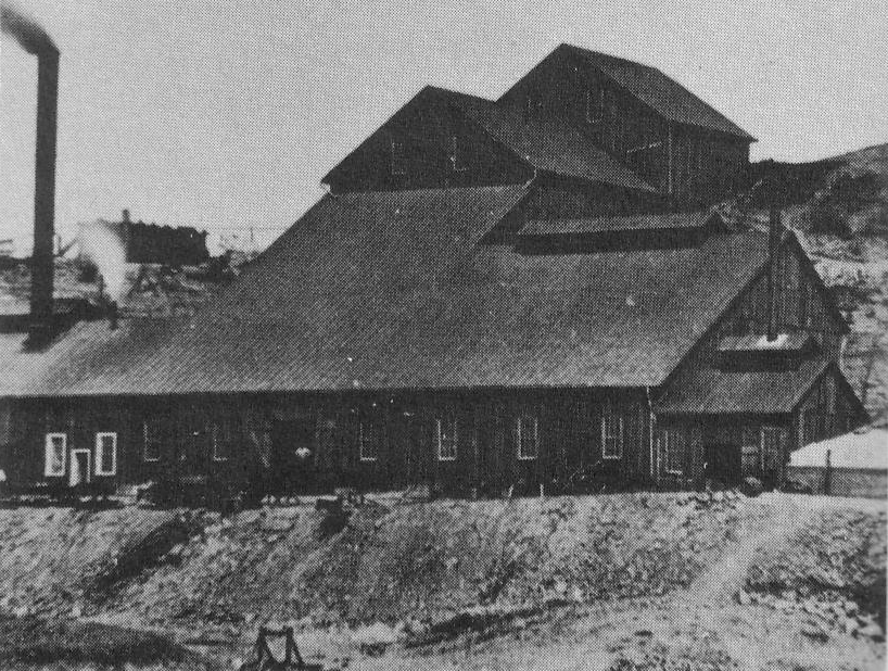 Contention City, Arizona, circa 1880. The Contention Mill - twenty-five stamps and thirty men - was one of three stamp mills that reduced the silver ore from the Tombstone mines.